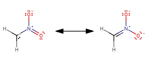 The conjugate base has extra stability due to induction and resonance